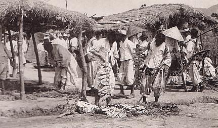 Old Sacheon market